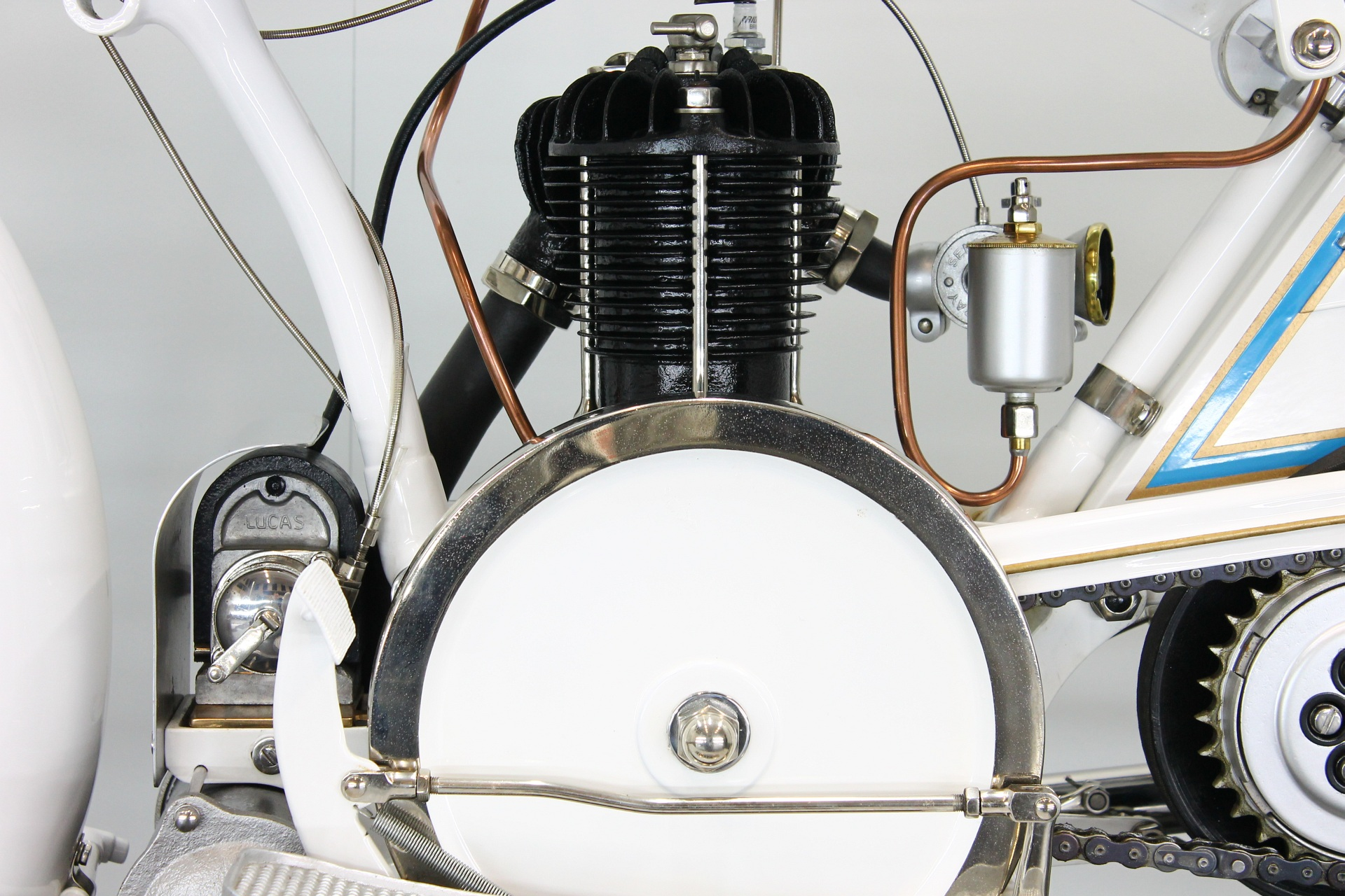 c.1922 550cc Blackburne sidevalve